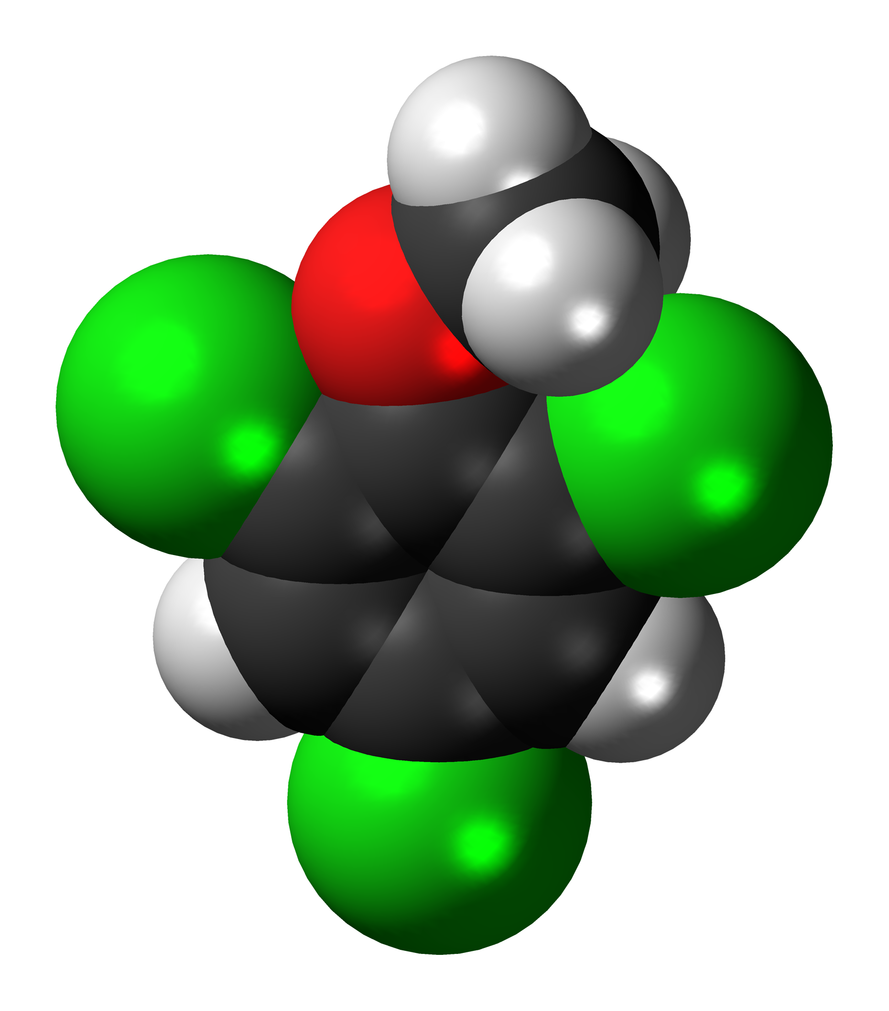 Space-filling model of the 2,4,6-trichloroanisole molecule, also known as TCA, the chemical responsible for cork taint in wine. Colour code: Carbon, C: black Hydrogen, H: white Oxygen, O: red Chlorine, Cl: green